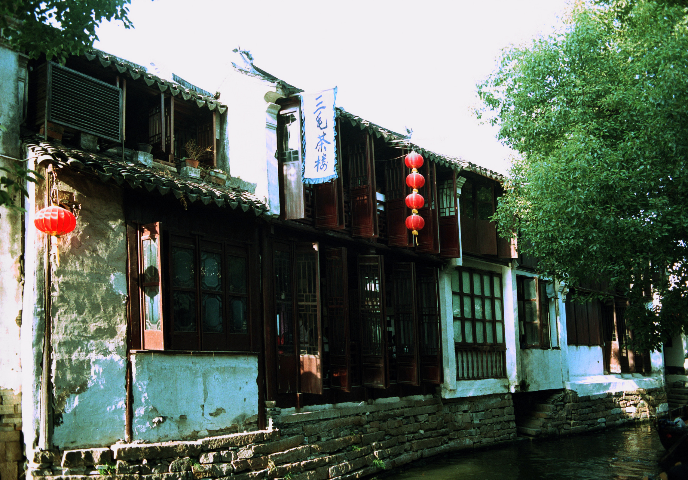 Sanmao Tea House in Zhouzhuang